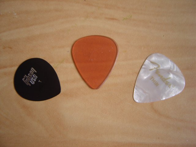 3 guitar picks